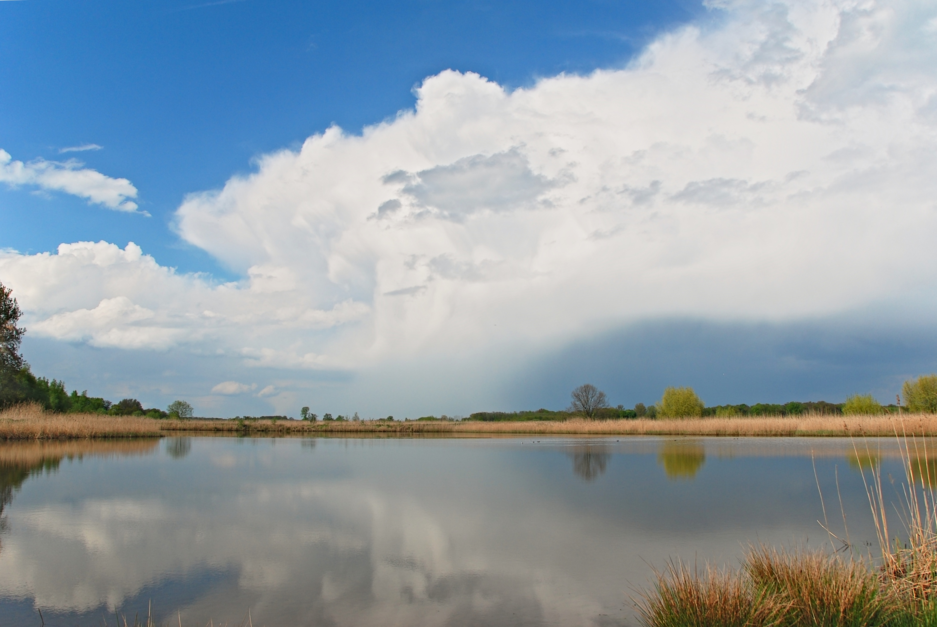 Rieselfelder Münster (nature reserve). Location: Münster, NRW, Germany